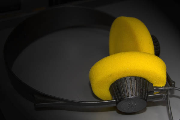 Sennheiser HD 414 headphone